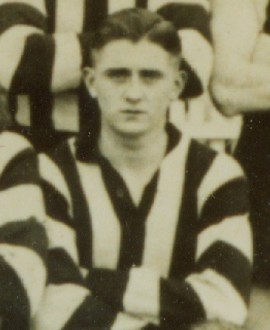 Photo of Kevin Sullivan in 1941